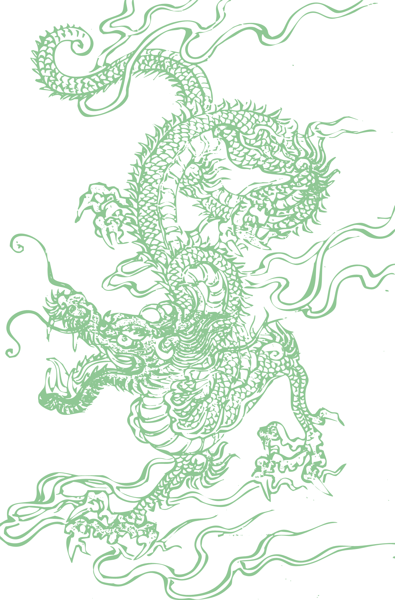 Chinese dragon, symbol of Chinese culture and Chinese folk religion.